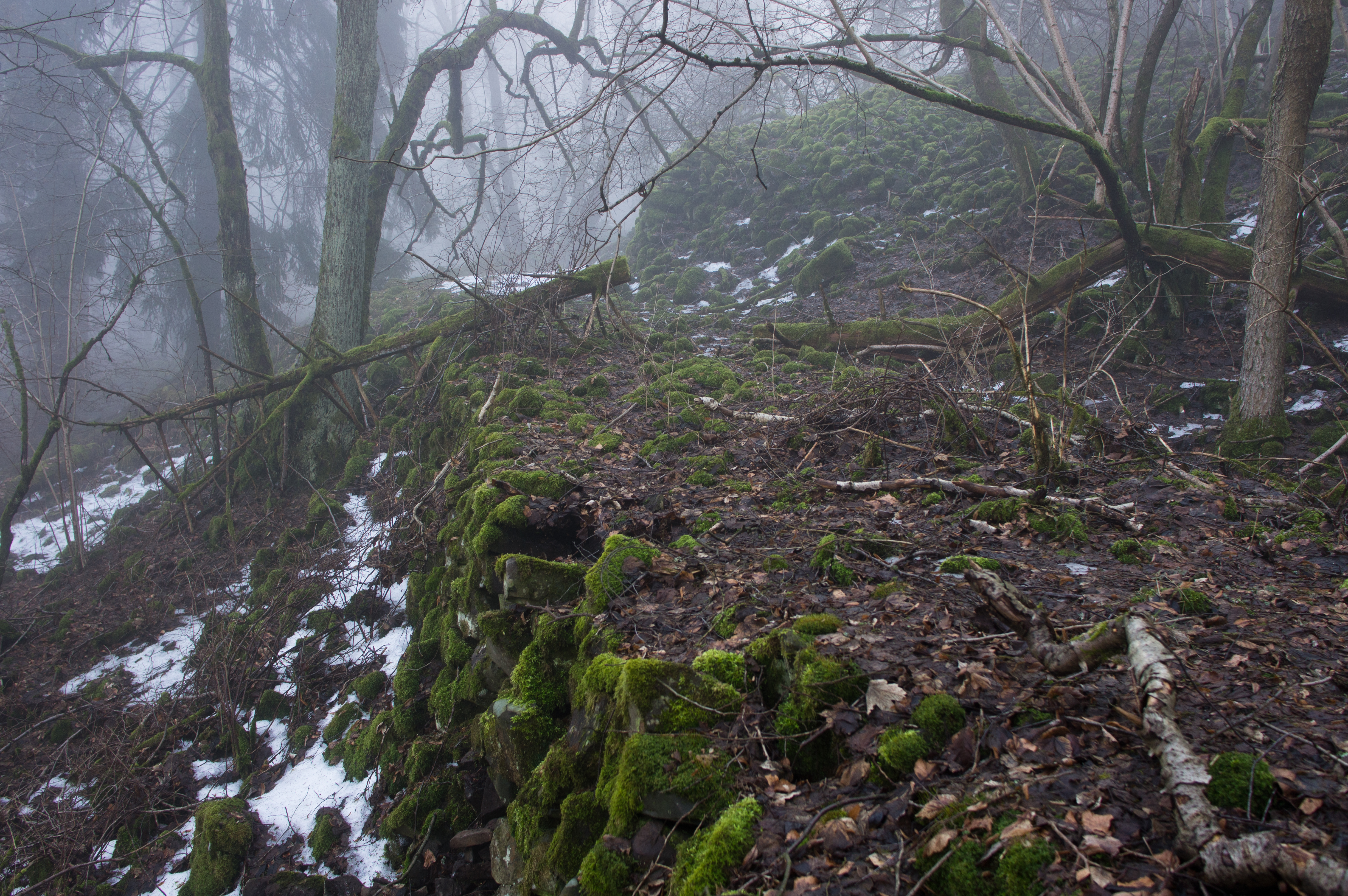 Western wall of the oppidum Steinsburg, Kleiner Gleichberg, Thuringia